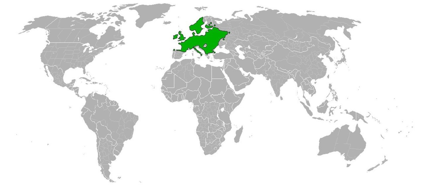 Distribution map of Anemone nemorosa according to Meusel, Jager, Weinert. Vergleichende Chorologie der Zentraleuropaischen Flora